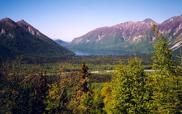 Many of Alaska’s prehistoric people, from the subarctic to Southeast, relied on the return of the salmon each years. Kijik Archaeological District is an associated landmark.